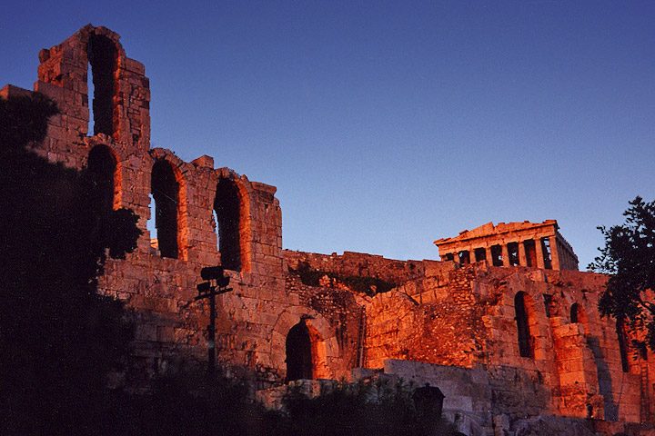 The Acropolis in Greece